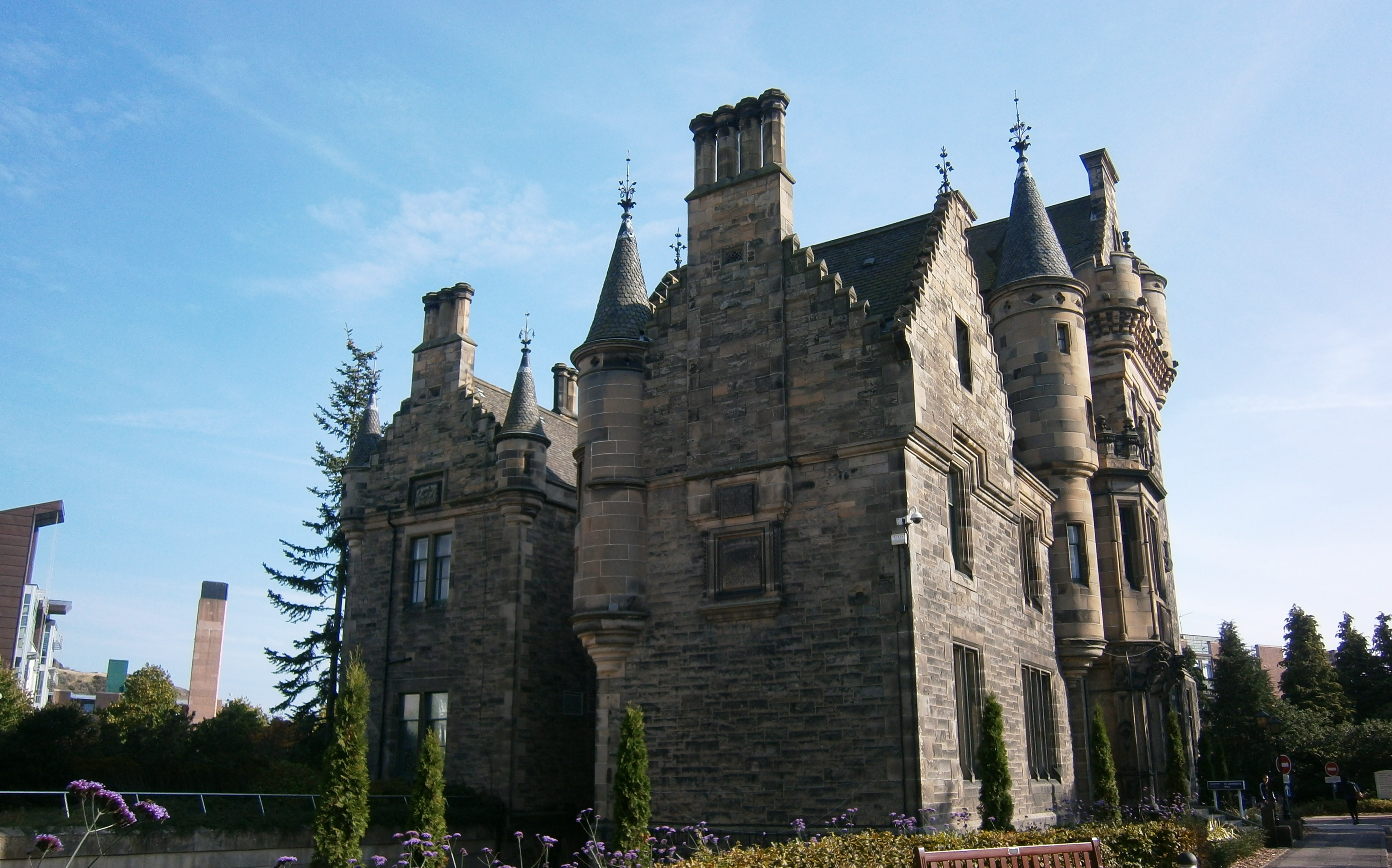 EDINBURGH, 18 HOLYROOD PARK ROAD, ST LEONARD'S HALL Wikidata has entry Q17568252 with data related to this building.